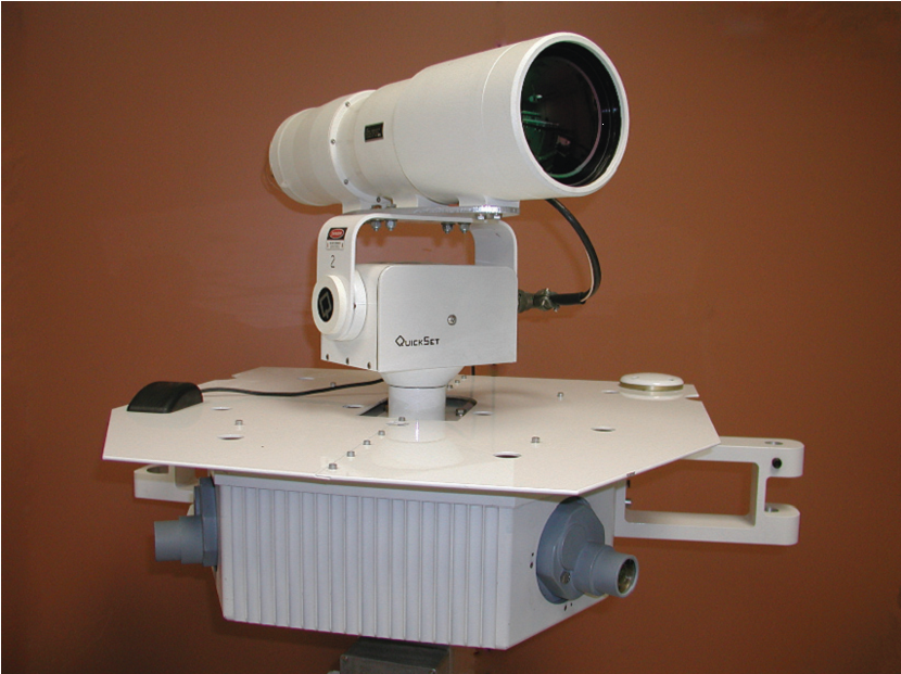 Rocket Launch Artillery System developed by Naval Research Lab for Marines